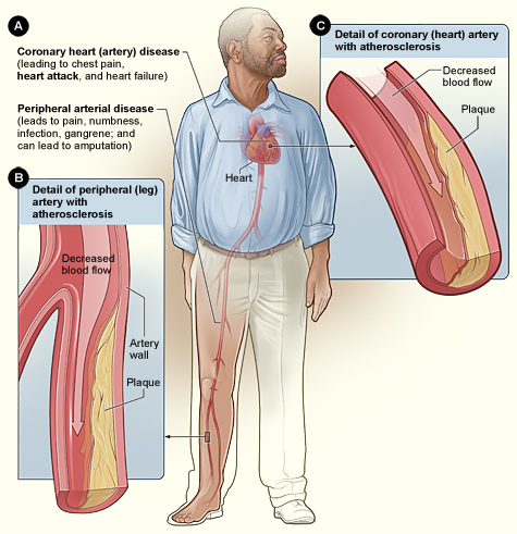 The image shows how smoking can affect arteries in the heart and legs. Figure A shows the location of coronary heart disease and peripheral arterial disease. Figure B shows a detailed view of a leg artery with atherosclerosis—plaque buildup that's partially blocking blood flow. Figure C shows a detailed view of a coronary (heart) artery with atherosclerosis.